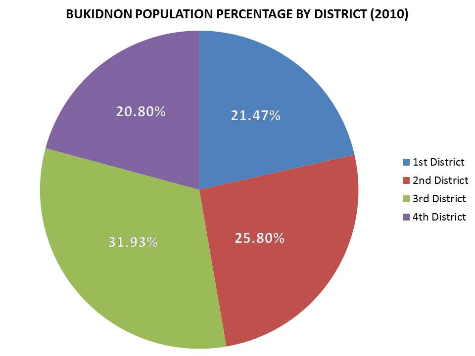 Population Percentage of Bukidnon by District based on 2010 NSO Census